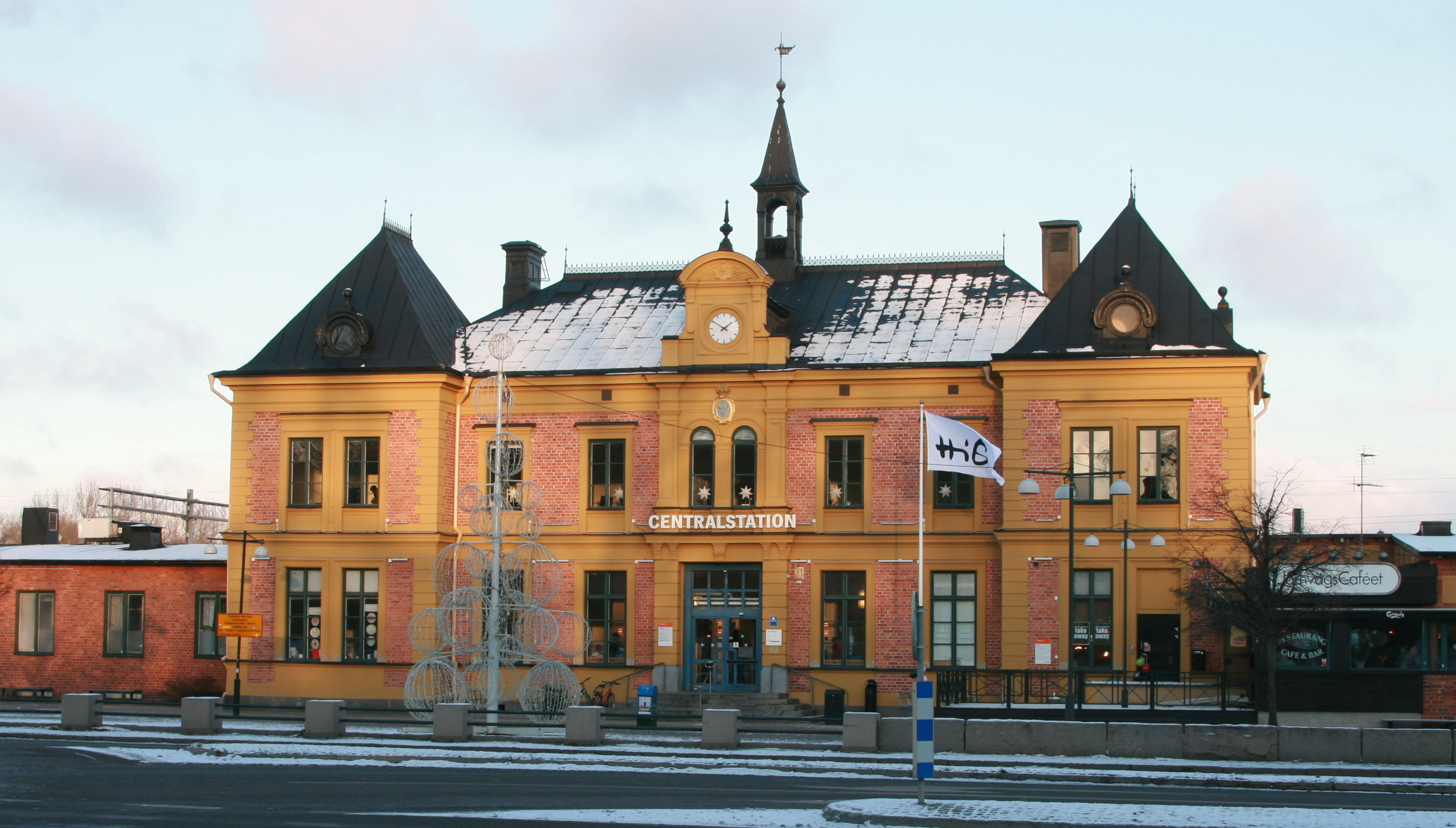 Linköping train station with Christmas decorations.